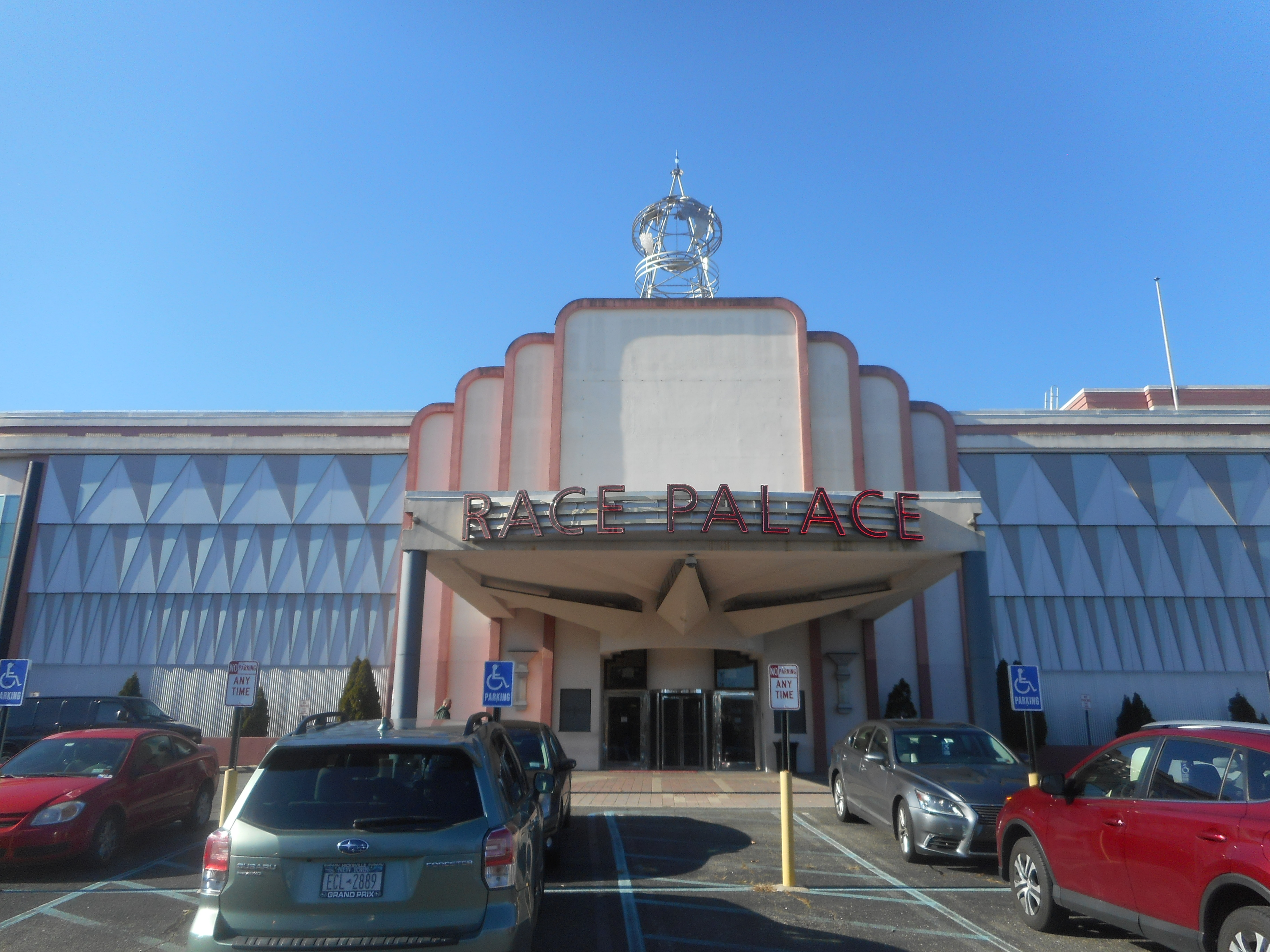 The Race Palace at 1600 Round Swamp Road in Plainview, New York, a combination restaurant, night club and OTB that was originally the site of the Galaxie Hotel, a Googie architecture style hotel south of the Long Island Expressway at Exit 48. Today, the building contains art deco-style architecture.